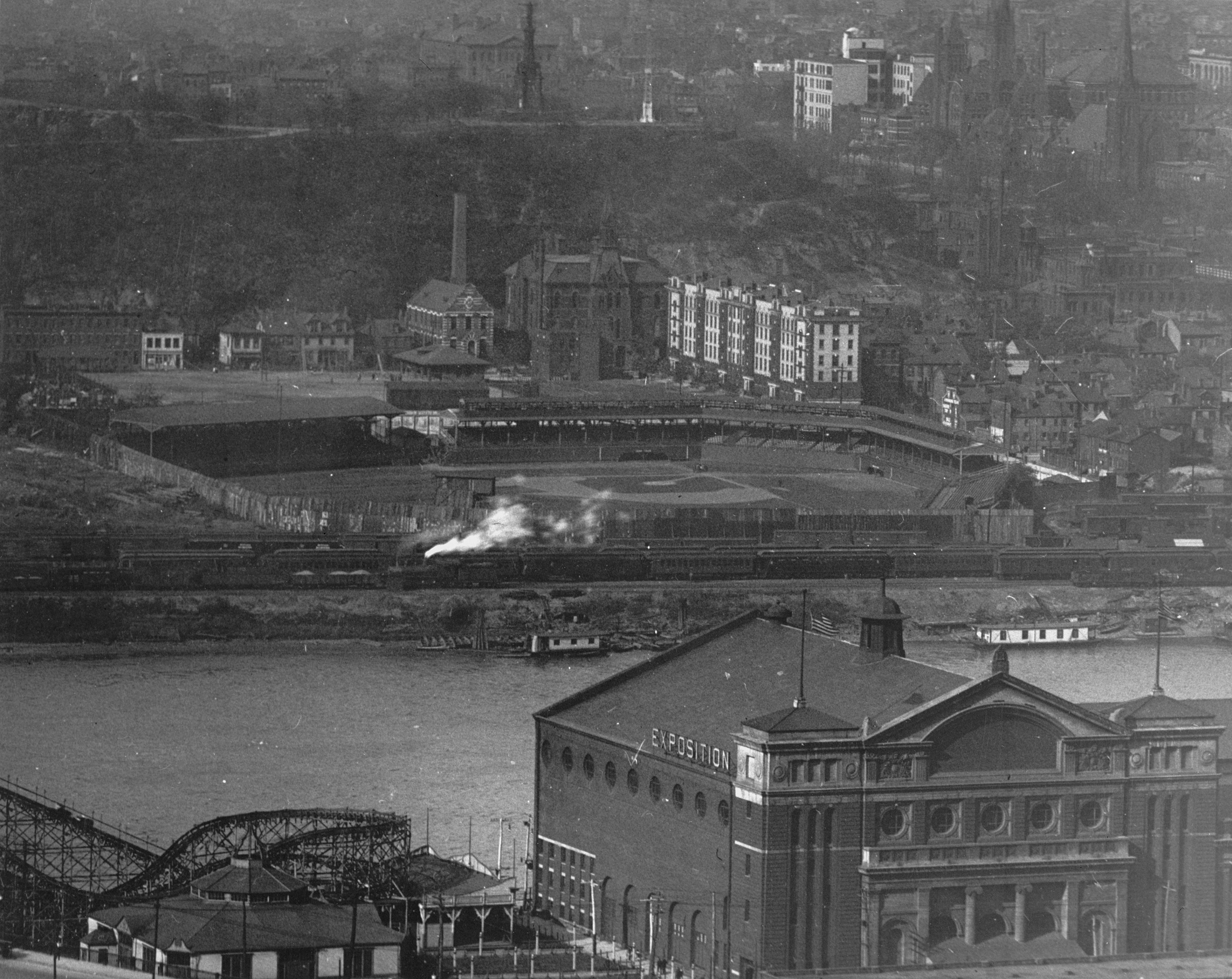 Winter Garden at Exposition Hall-External photograph showing both Exposition Hall and Exposition Park, located in Pittsburgh, PA, in 1915. The rollercoaster and amusement park associated with the building can be seen in this photo.